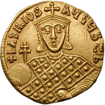 Basil I, AV Solidus. Constantinople mint. +bASILIOS AUGUST' b', crowned facing bust of Basil I, in loros, holding globe with patriarchal cross in right hand and akakia in left COhSTAhT S EVdOCIA, crowned facing busts of Constantine, beardless, on left, and Eudocia Ingerina on right: Constantine wears chlamys and holds globus cruciger, while his stepmother wears loros and holds cruciform scepter; between their heads, cross. This is an unusual issue in that it portrays the empress Eudocia. If the date of AD 882 is correct, this is a memorial issue struck at the time of her death. As an alternative, Grierson has suggested it may be a coronation issue from 868.